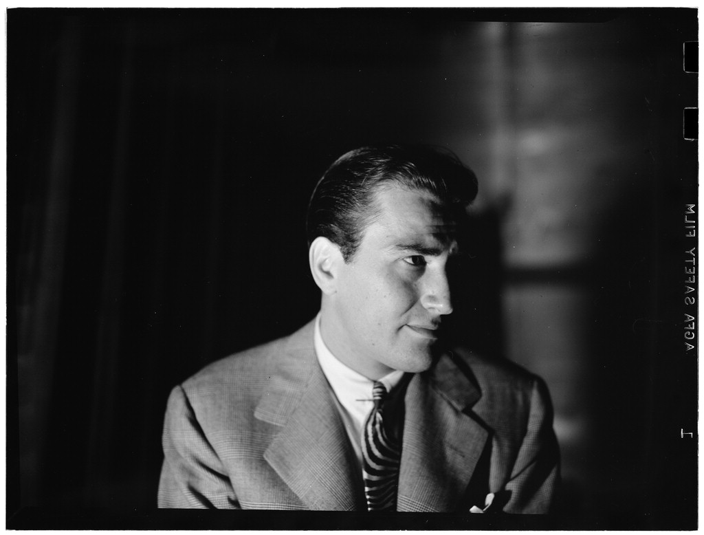 Artie Shaw. Photography by William P. Gottlieb